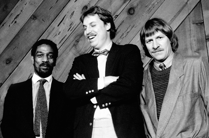 String Trio of New York, l.-r.: Billy Bang, John Lindberg, James Emery at Bach Dancing & Dynamite Society, Half Moon Bay CA 2/2/86 Photo: Brian McMillen /